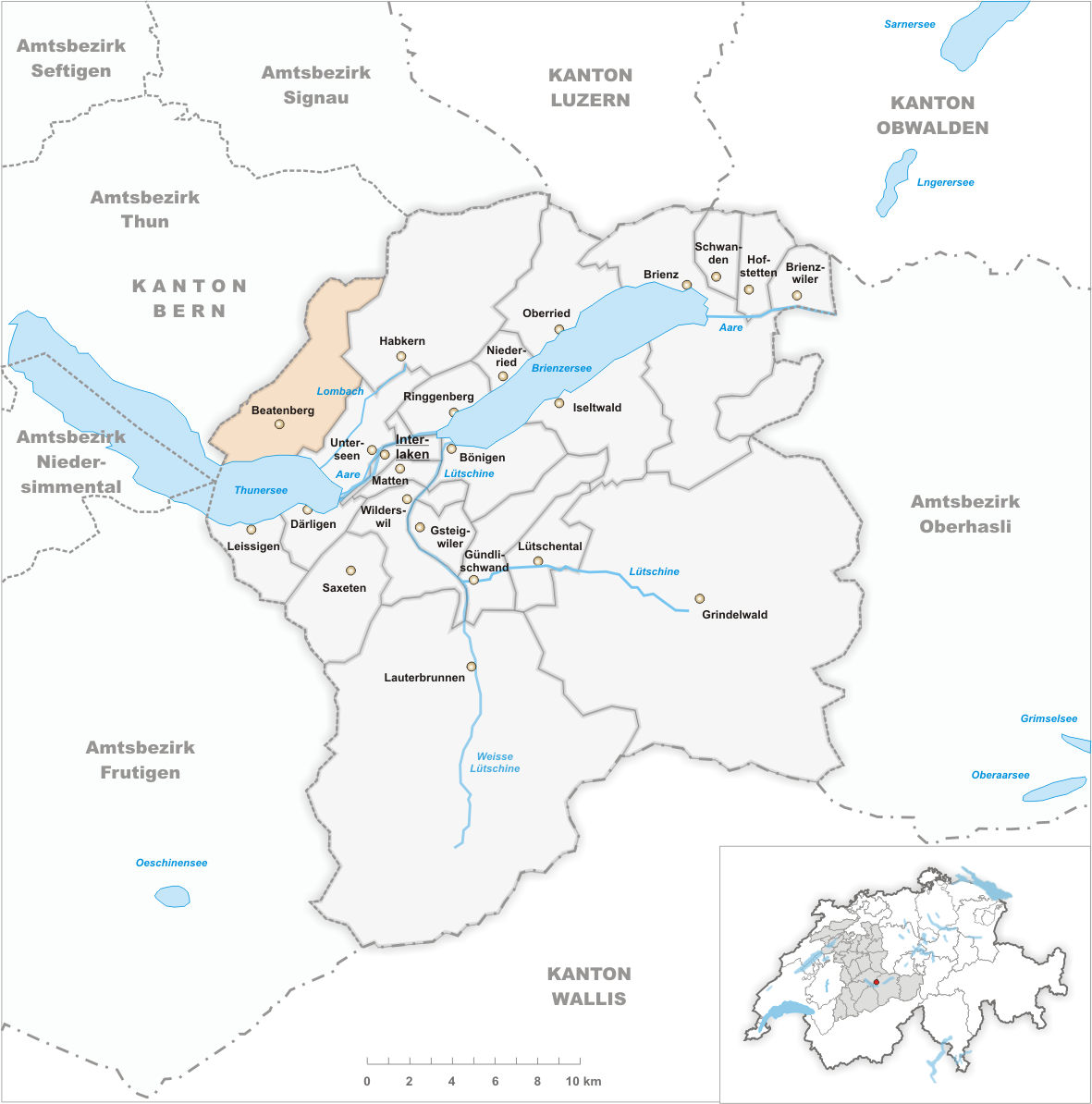 Municipality Beatenberg